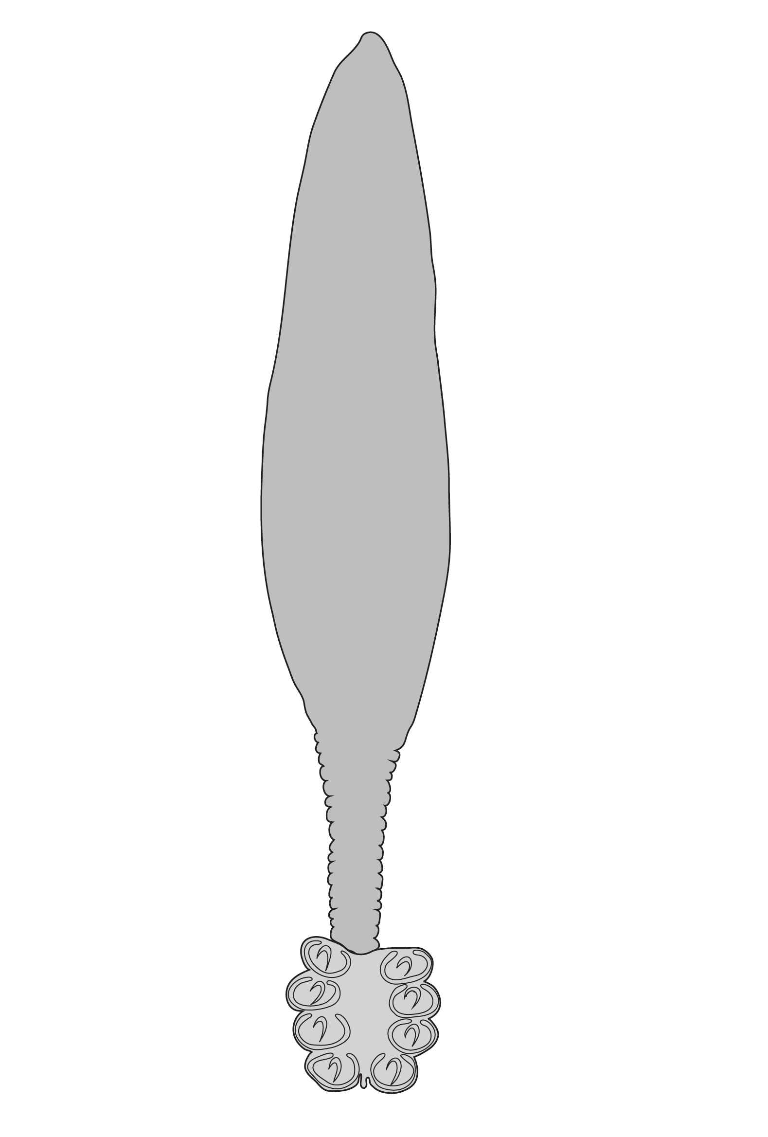 Chimaericola leptogaster (Monogenea, Chimaericolidae). Own work, redrawn from Brinkmann (1942).